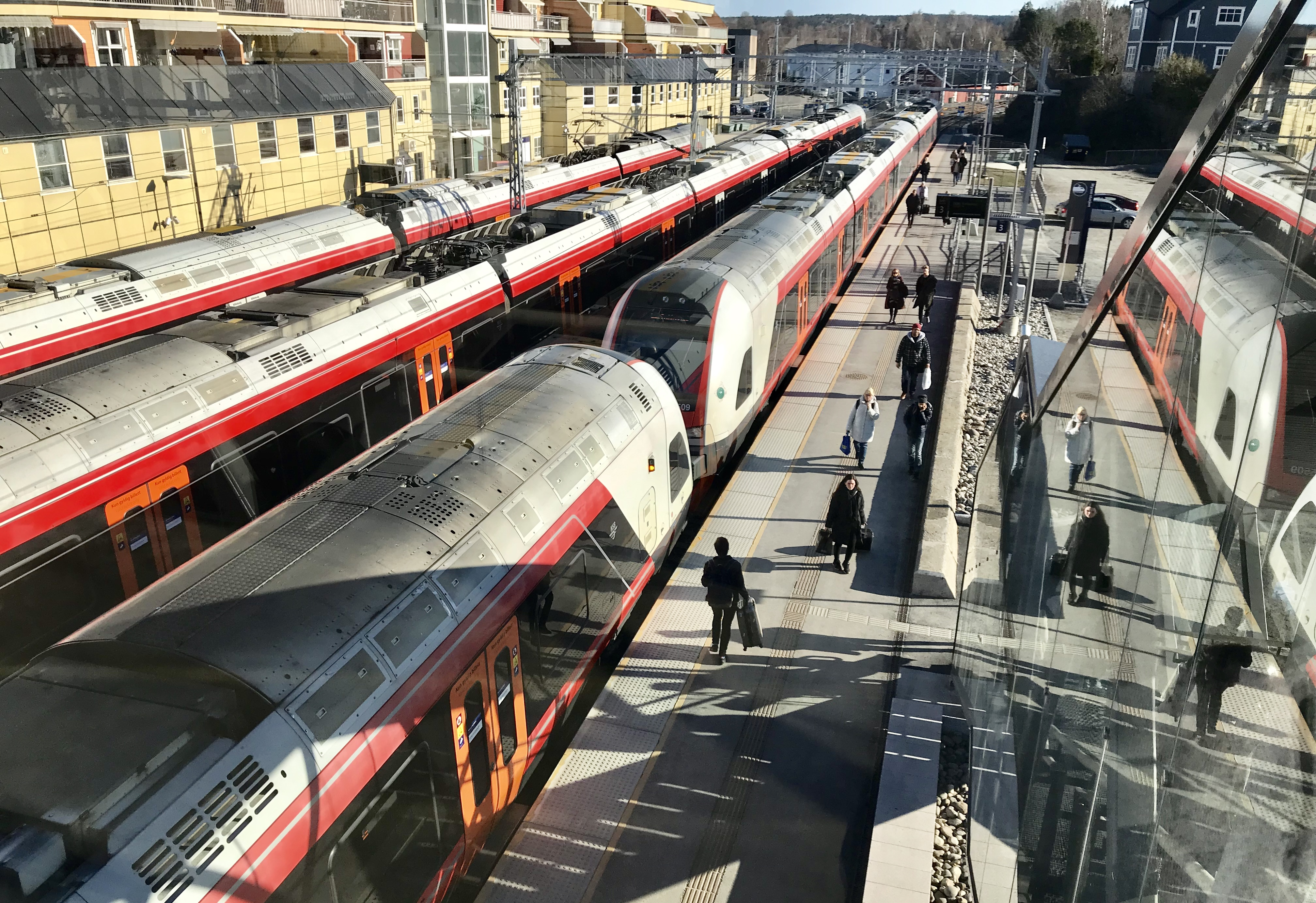 Mysen railway station, an afternoon in 2019.